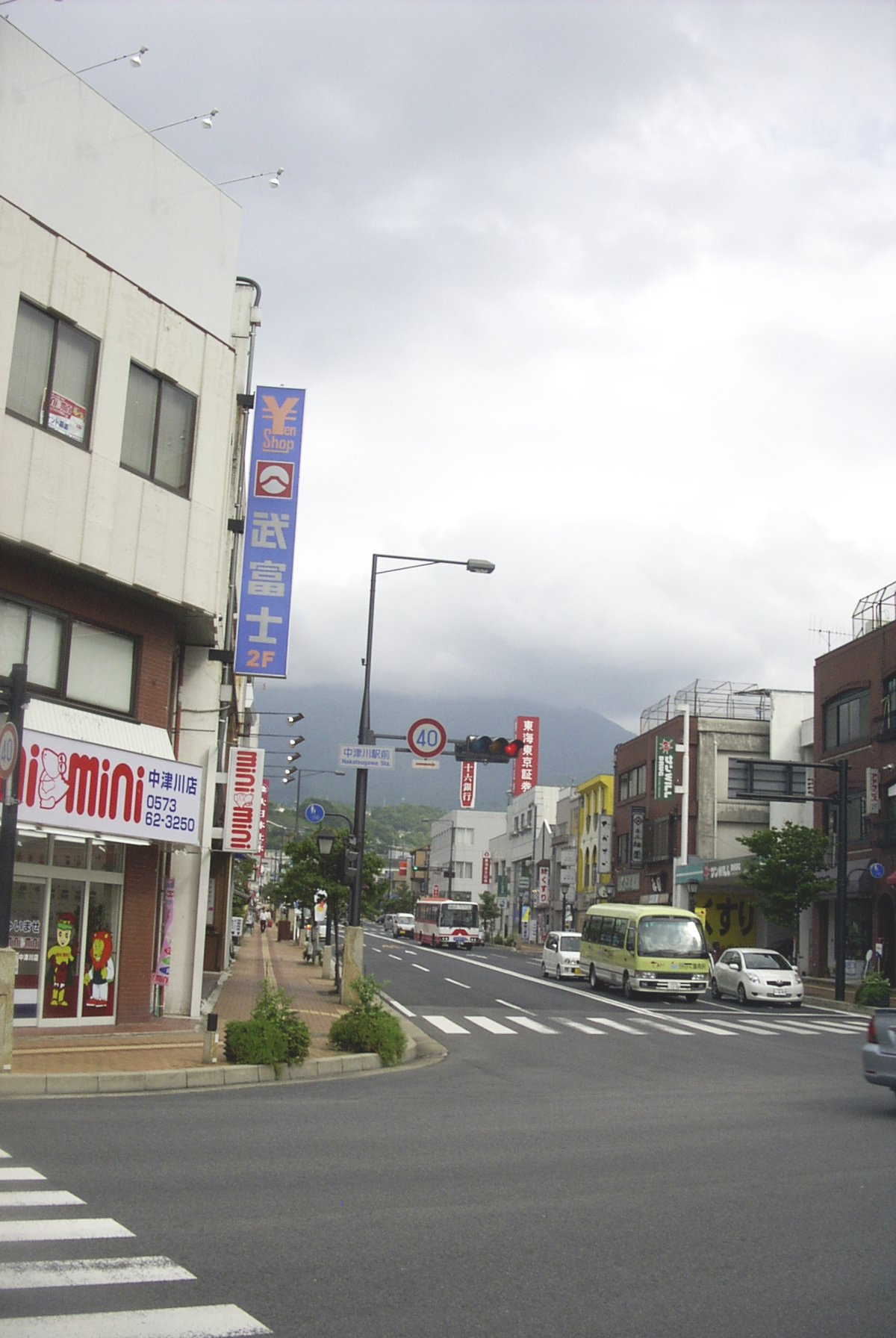 Nakatsugawa-shi, Gifu, Japan Photo taken by me on July 4, 2006.